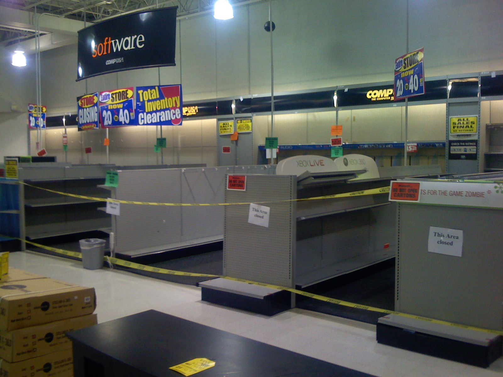 The CompUSA in Columbia, Maryland closing.